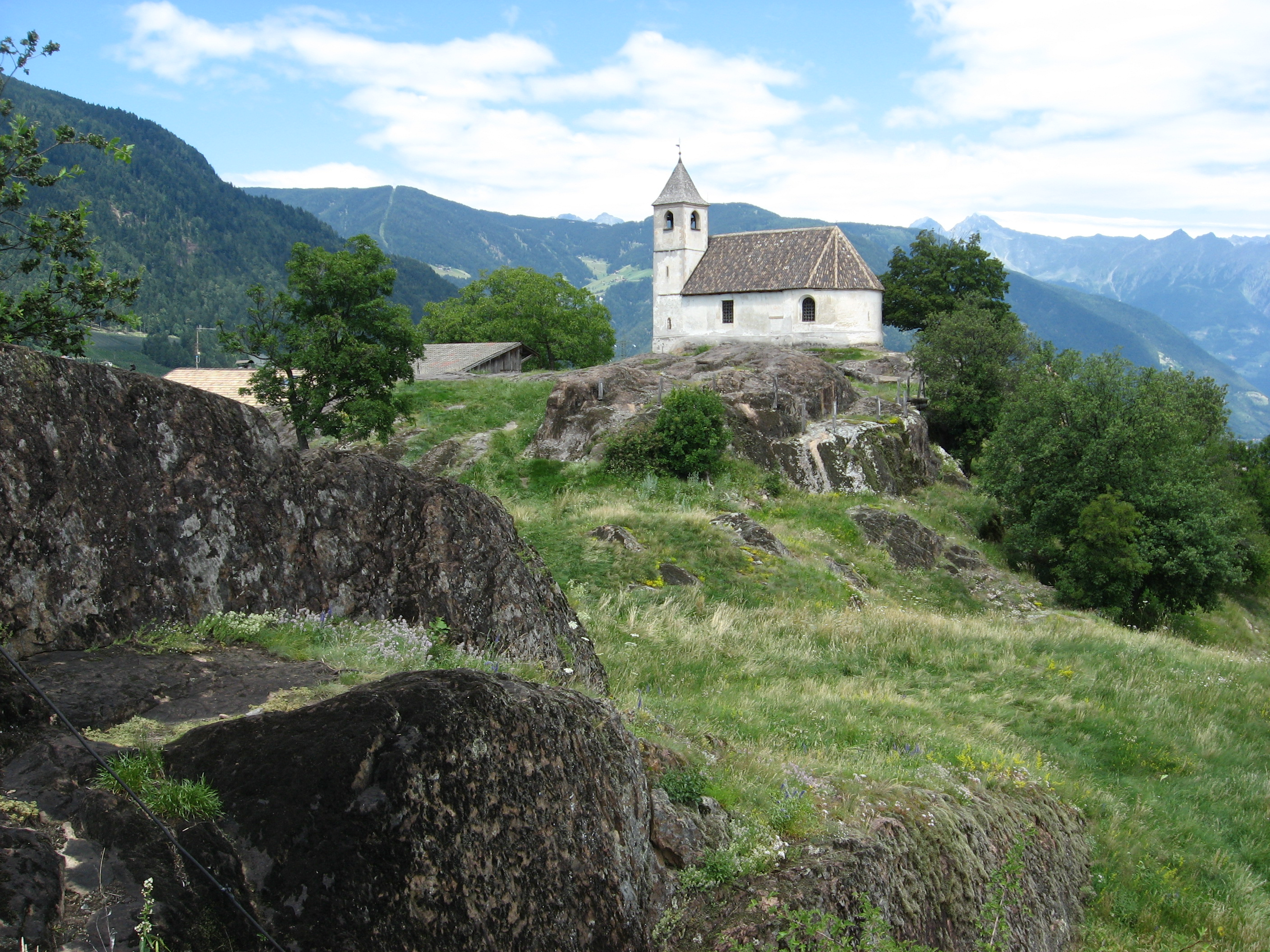 St Hippolyt in Naraun